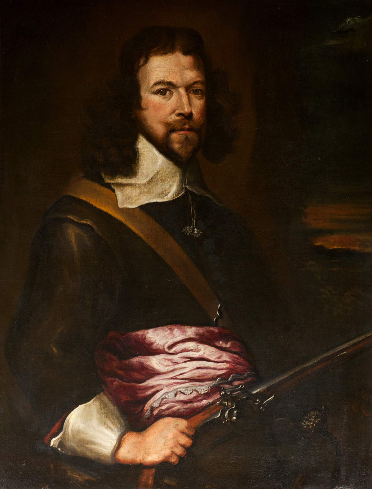 Portrait of Sir Edward Dering (1598–1644), 1st Bt. Courtesy of the collection of the Royal Welsh Regimental Museum Trust.